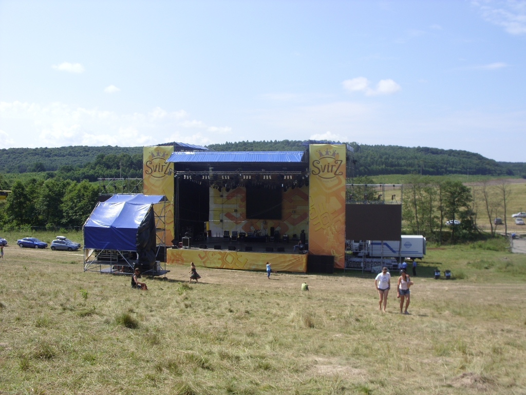 The main stage of Svirz World Music Festival in Svirzh, august 2009